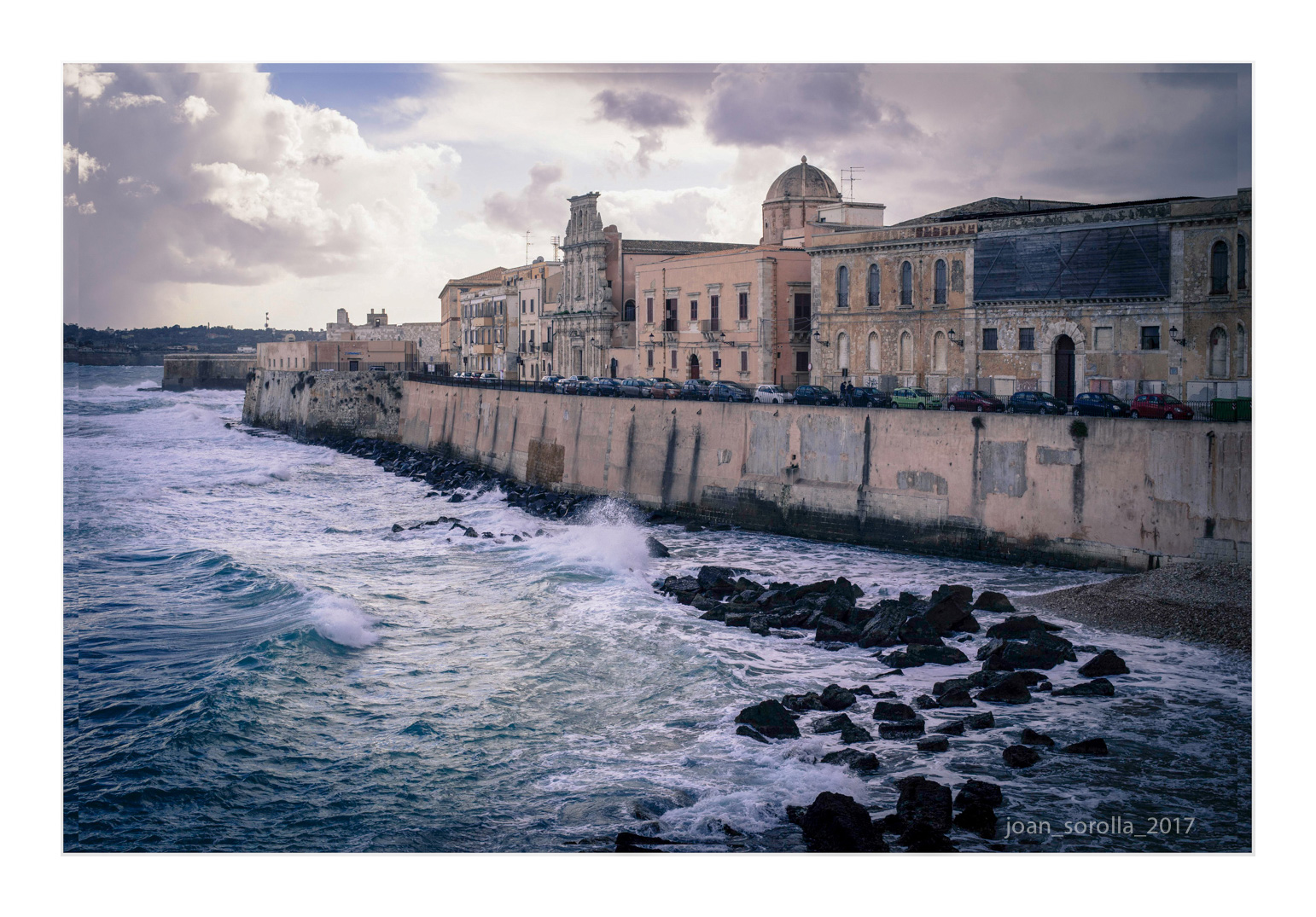 The Ortygia Island is the oldest part of Siracusa. It's part of UNESCO World Heritage since 2002.